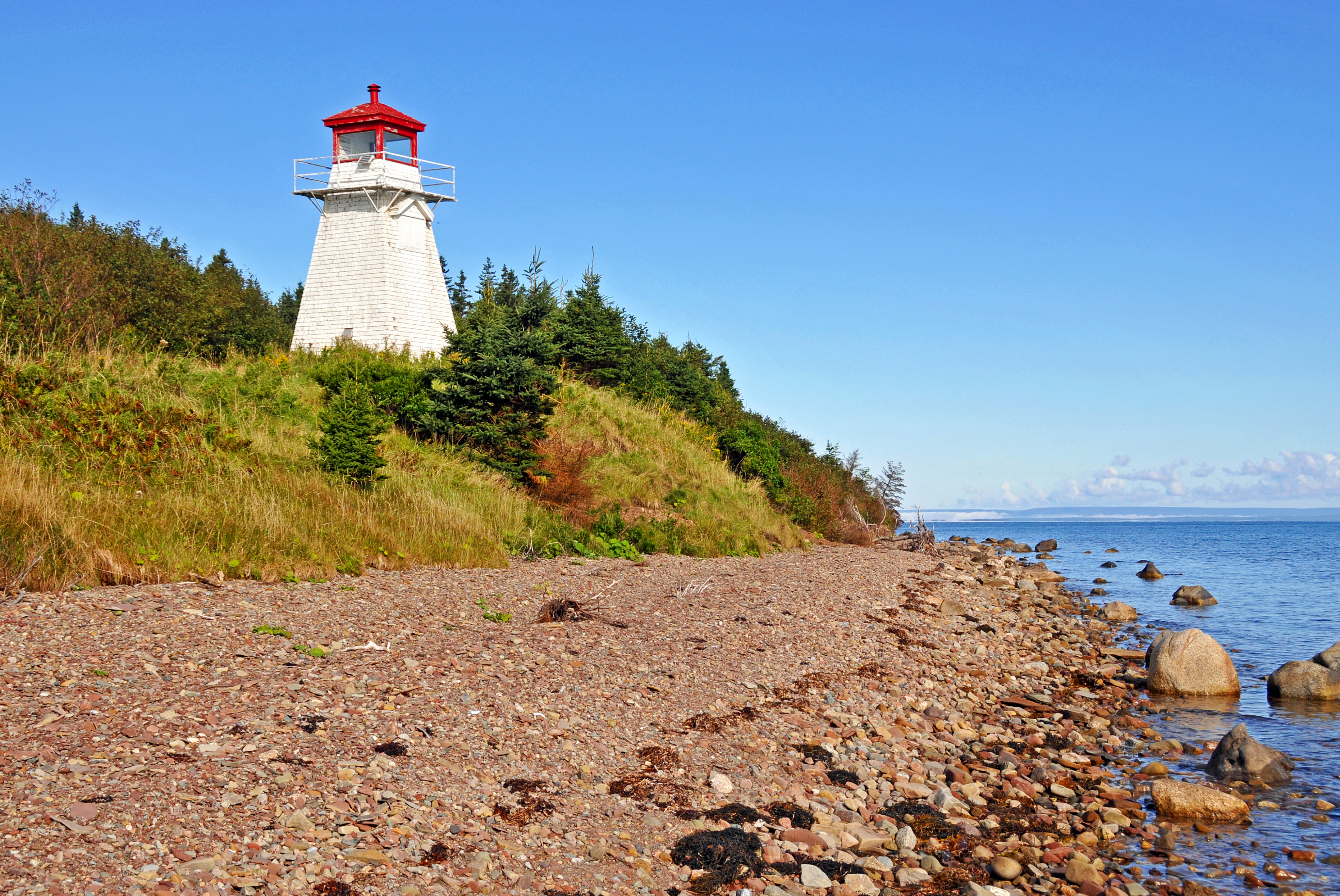 Cape George Lighthouse. The first lighthouse was established here in 1875 but is no longer standing. This tower was built in 1950 to replace the first light. Location: On cape, north entrance to St. Peter's Inlet Began and Lit: 1950 Tower Height: 8.23 meters (27ft) Light Height: 12.5 meters (41ft) above water level Scenic Drive: Bras d'Or Lakes